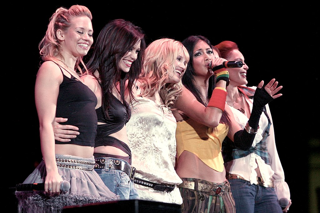 The Pussycat Dolls at the KISS 106.1 Jingle Bell Bash 8